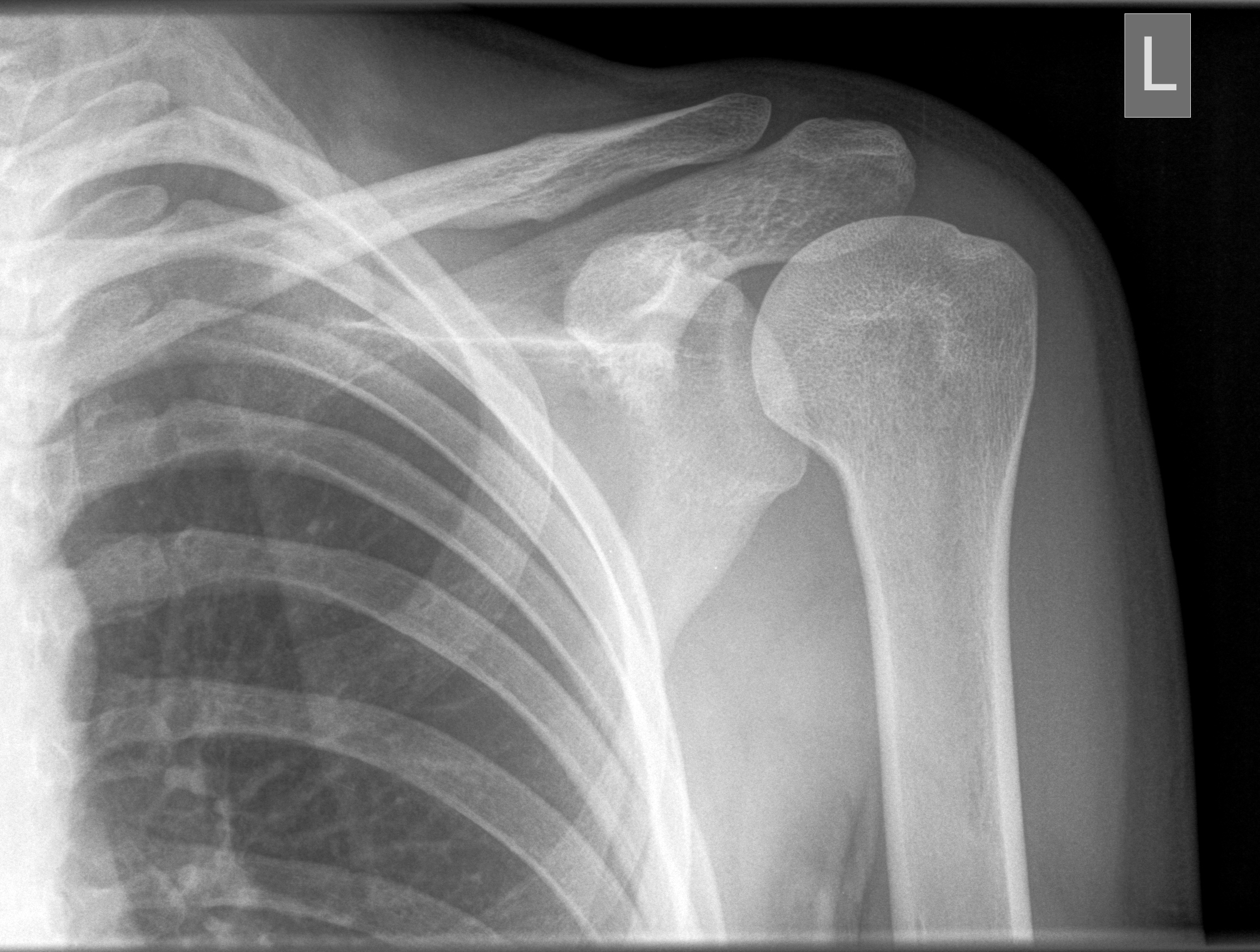 X-ray picture of left shoulder joint